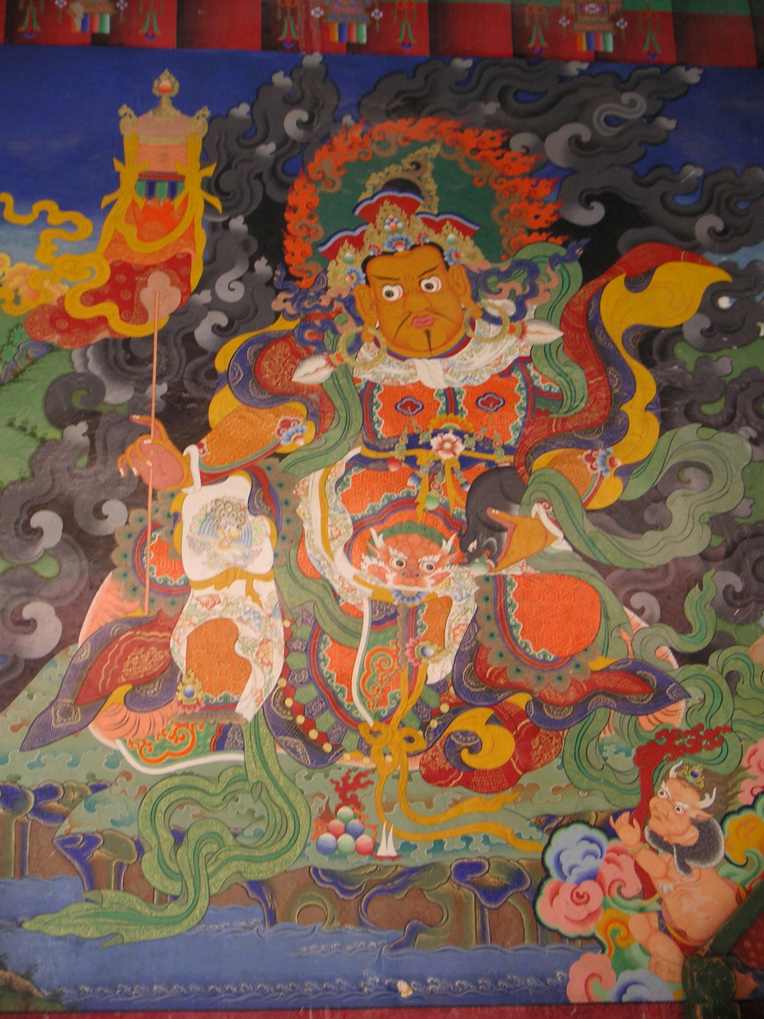 A mural of Vaisravana/Namtose, the Guardian King of the North, from Ladakh Note: The file is under de Indian freedom of panorama